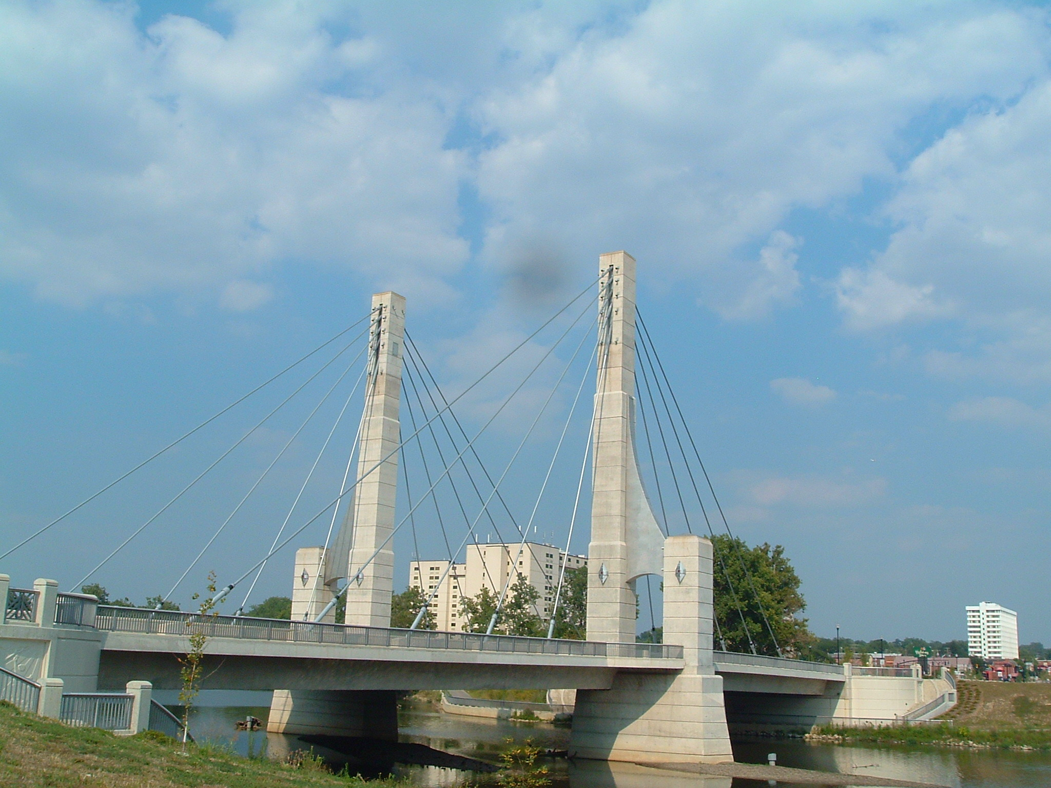 Lane Avenue Bridge in Columbus, Ohio looking Northeast. Self made photo.